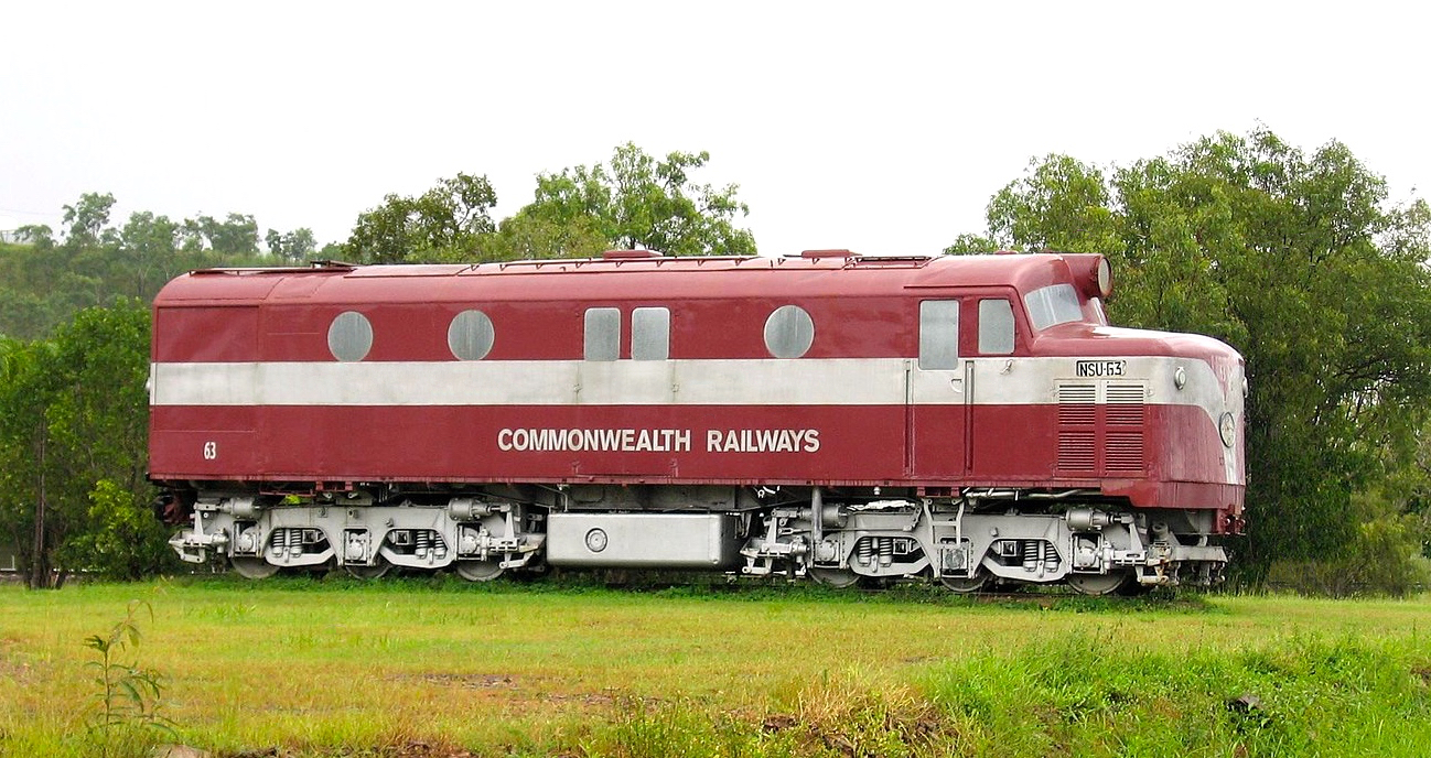 Ex-Commonwealth Railways NSU class diesel-electric locomotive no. 63 of the former Central Australia Railway and North Australia Railway, at the Adelaide River Rail Heritage Precinct. The body is a welded-shut shell. The colour scheme is as on the locos delivered to the Commonwealth Railways in 1954.